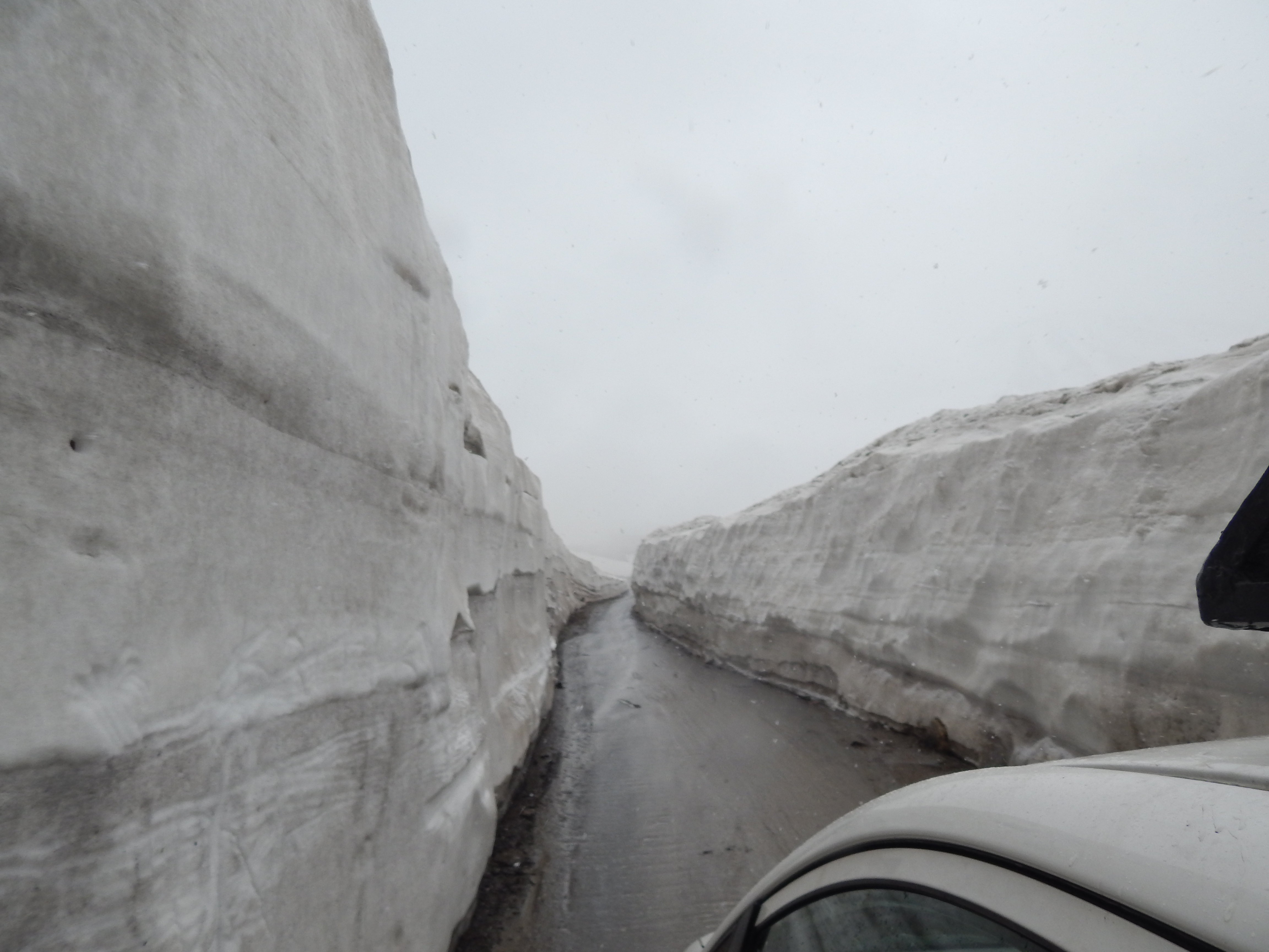 Driving through the pass